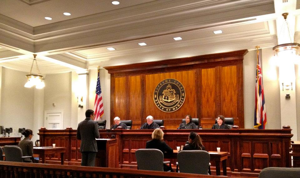 WSRL Moot